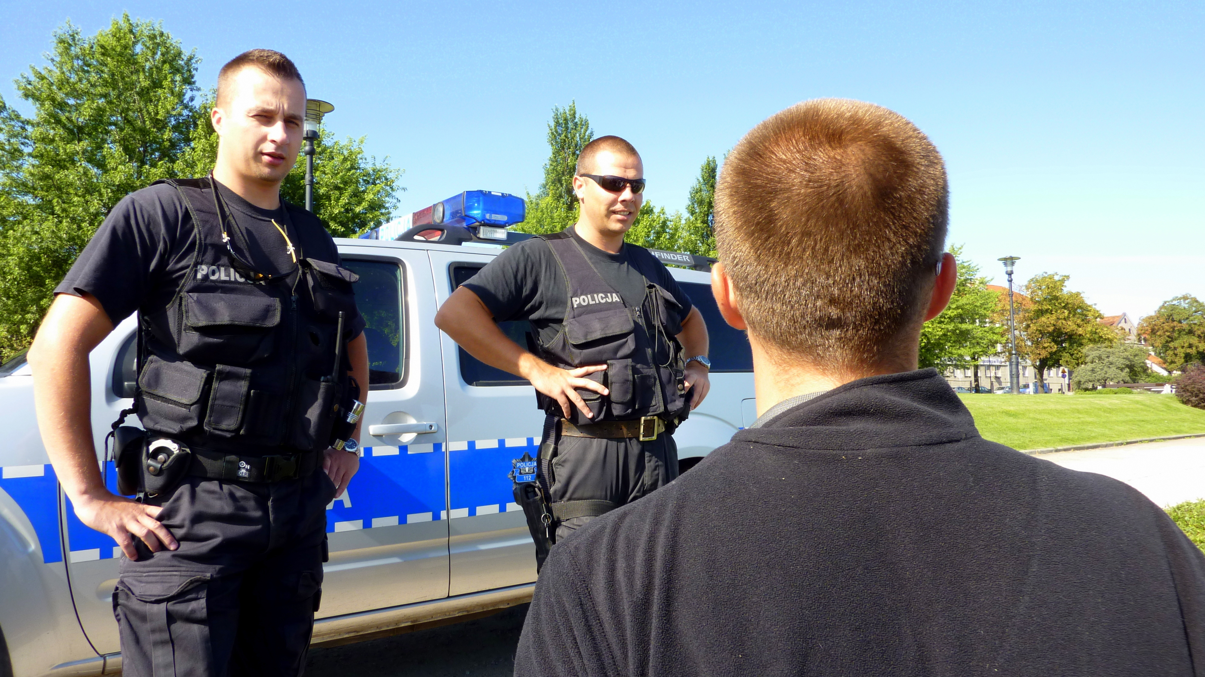 Two officers of the Polish police in conversation with an unknown gentleman